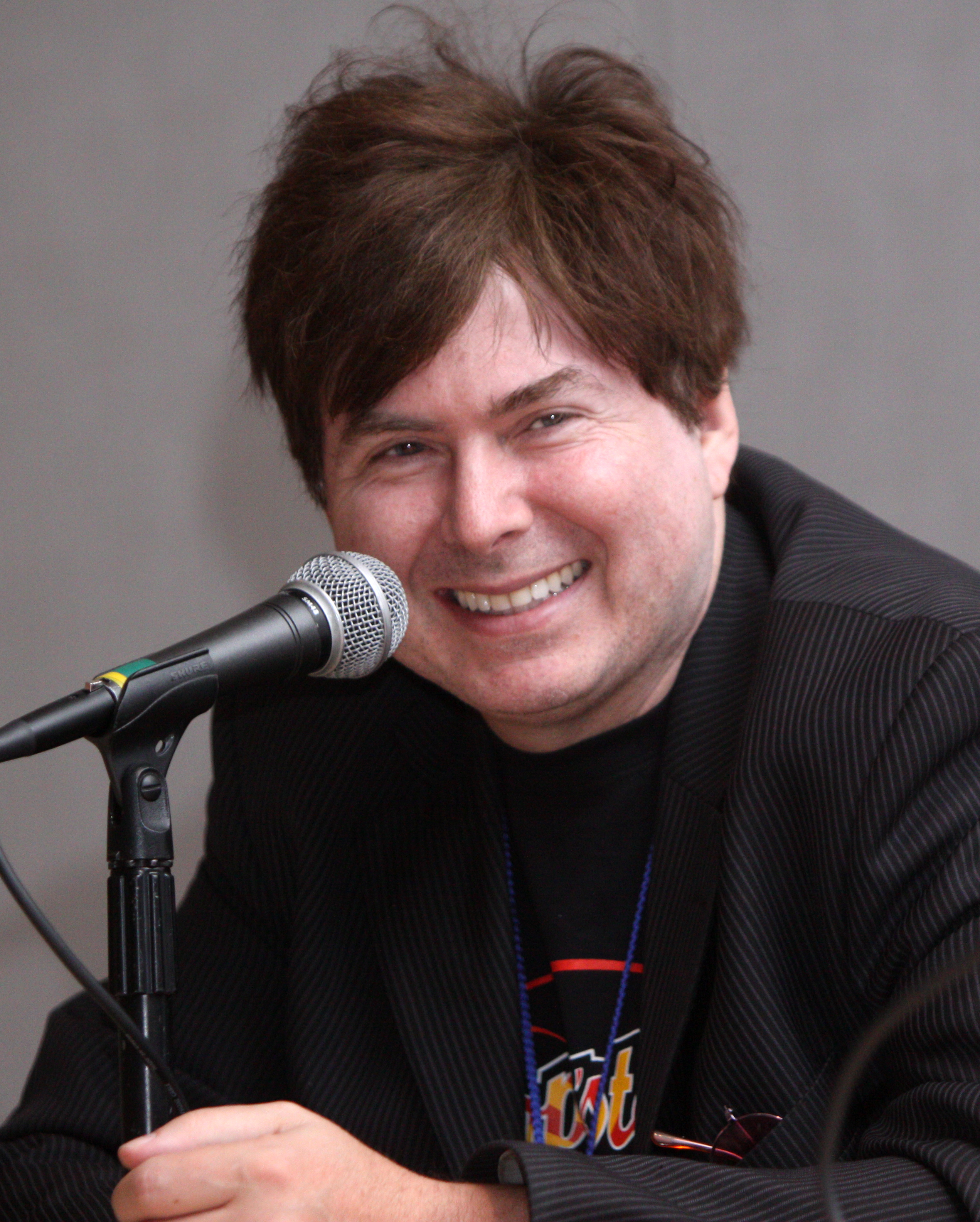 Quinton Flynn at the 2012 Phoenix Comicon in Phoenix, Arizona.